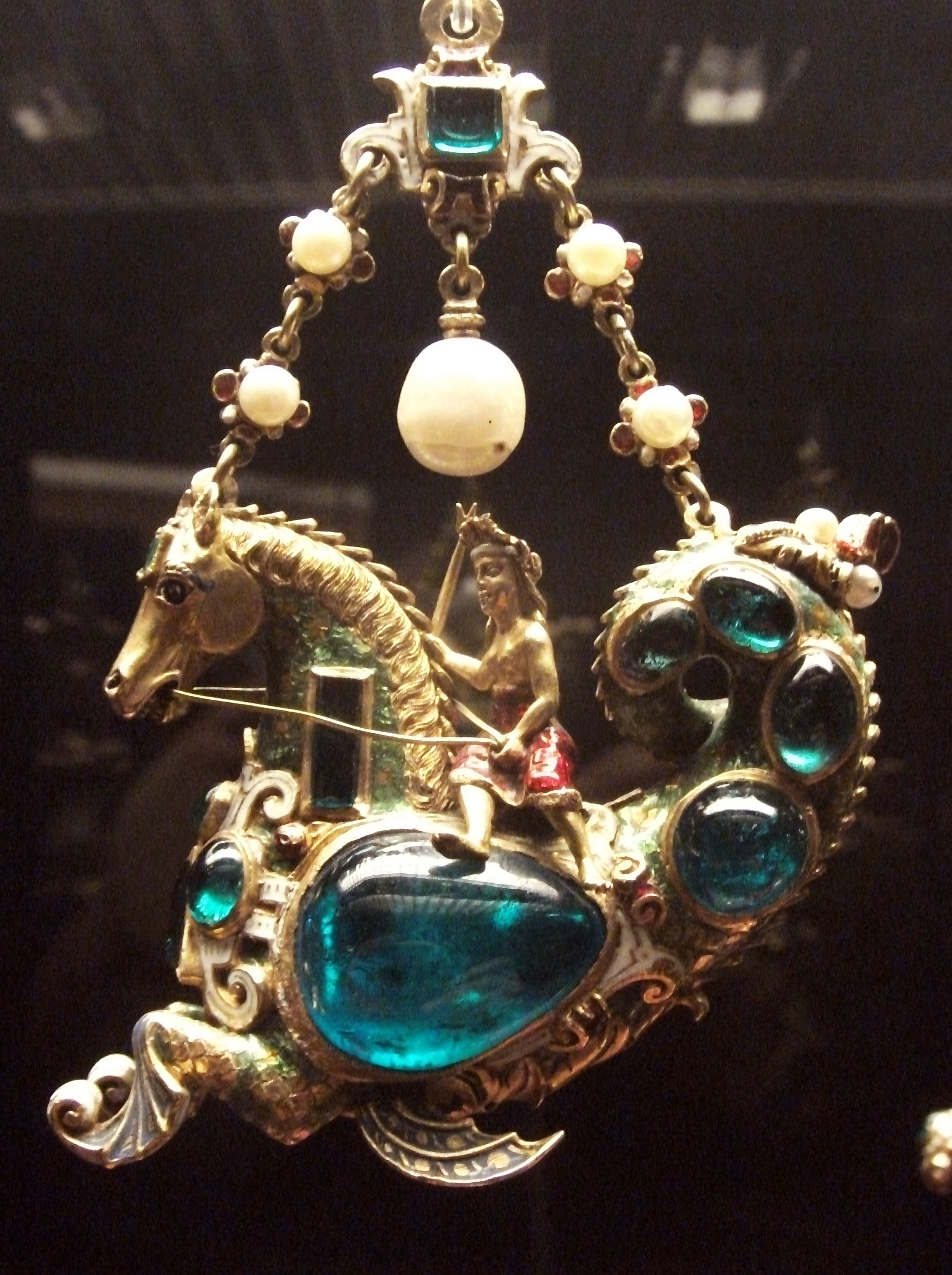 Waddesdon Bequest, British Museum